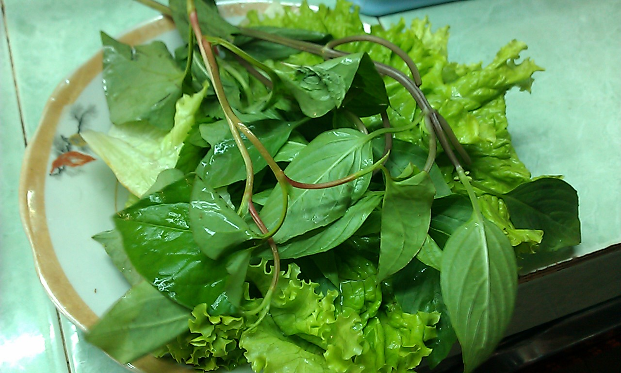 Houttuynia cordata Dokudami served with Banh Xeo in Saigon city.